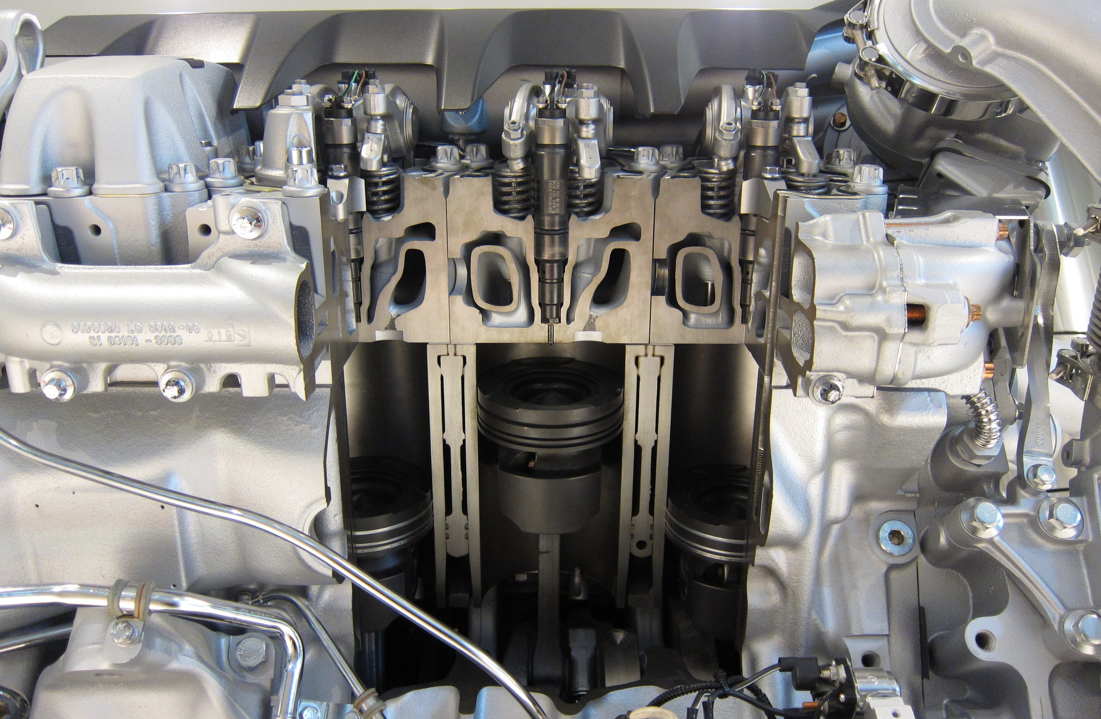 A cutaway of a V8 Diesel engine from a MAN TGX. Three pistons and their cylinders are visible, with their respective common rail diesel fuel injectors. The engine is reported to output 680hp and 3000 Nm, and is displayed at the Deutsches Museum.